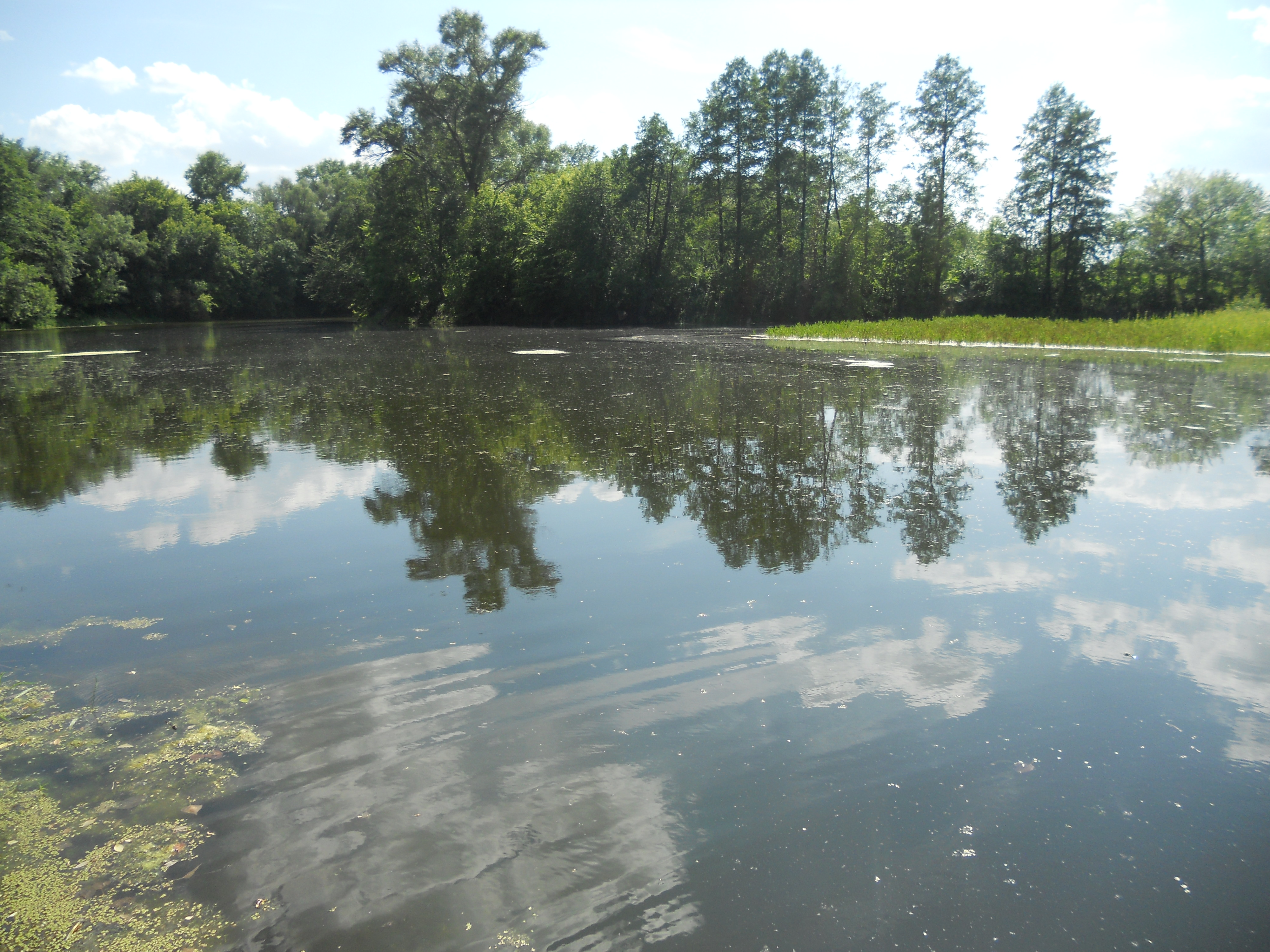 v. Pidhirne, Chernihiv Raion, Chernihiv Oblast, Ukraine